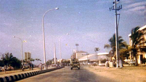 An Eland armoured car of "D" Squadron, 2 South African Infantry (SAI) Battalion driving into Lobito during Operation Savannah.